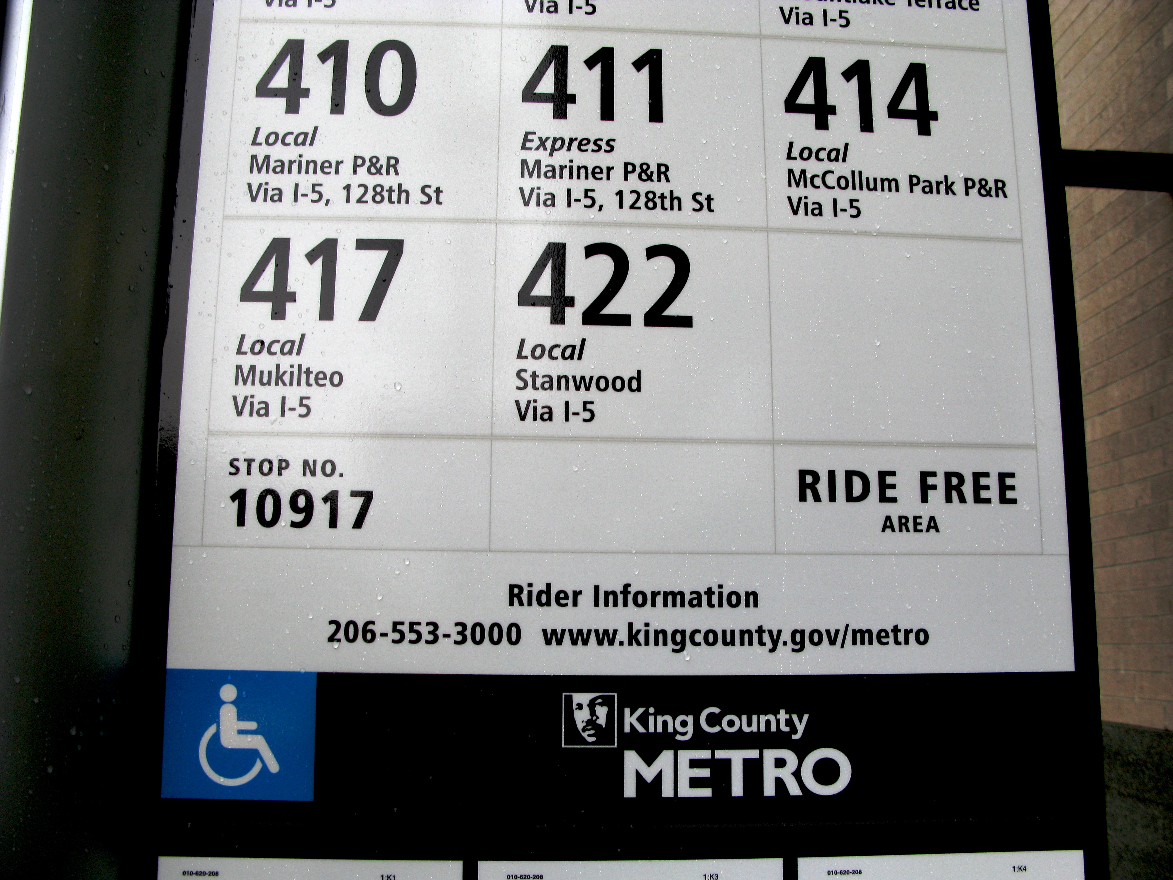 The information sign now not only lists route numbers but also type of service (local or express), destinations and route. The stop number is also listed. Note that this is Metro's internal stop ID number not the MyBus stop numbers (they really should standardize the numbers).